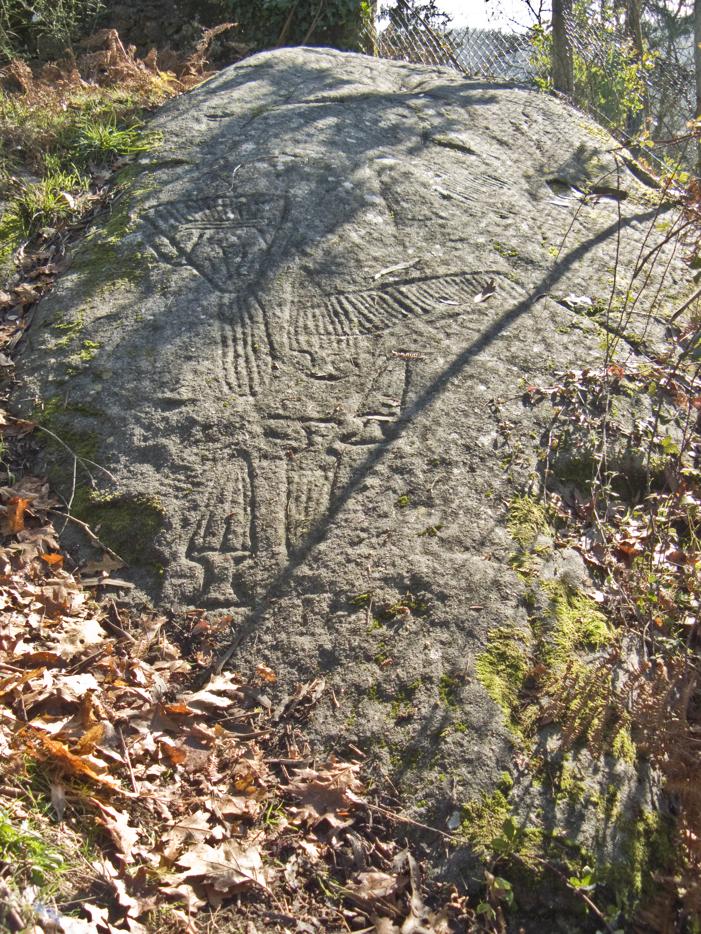 Petroglyphs of Castriño de Conxo - Santiago de Compostela - Galicia - Spain